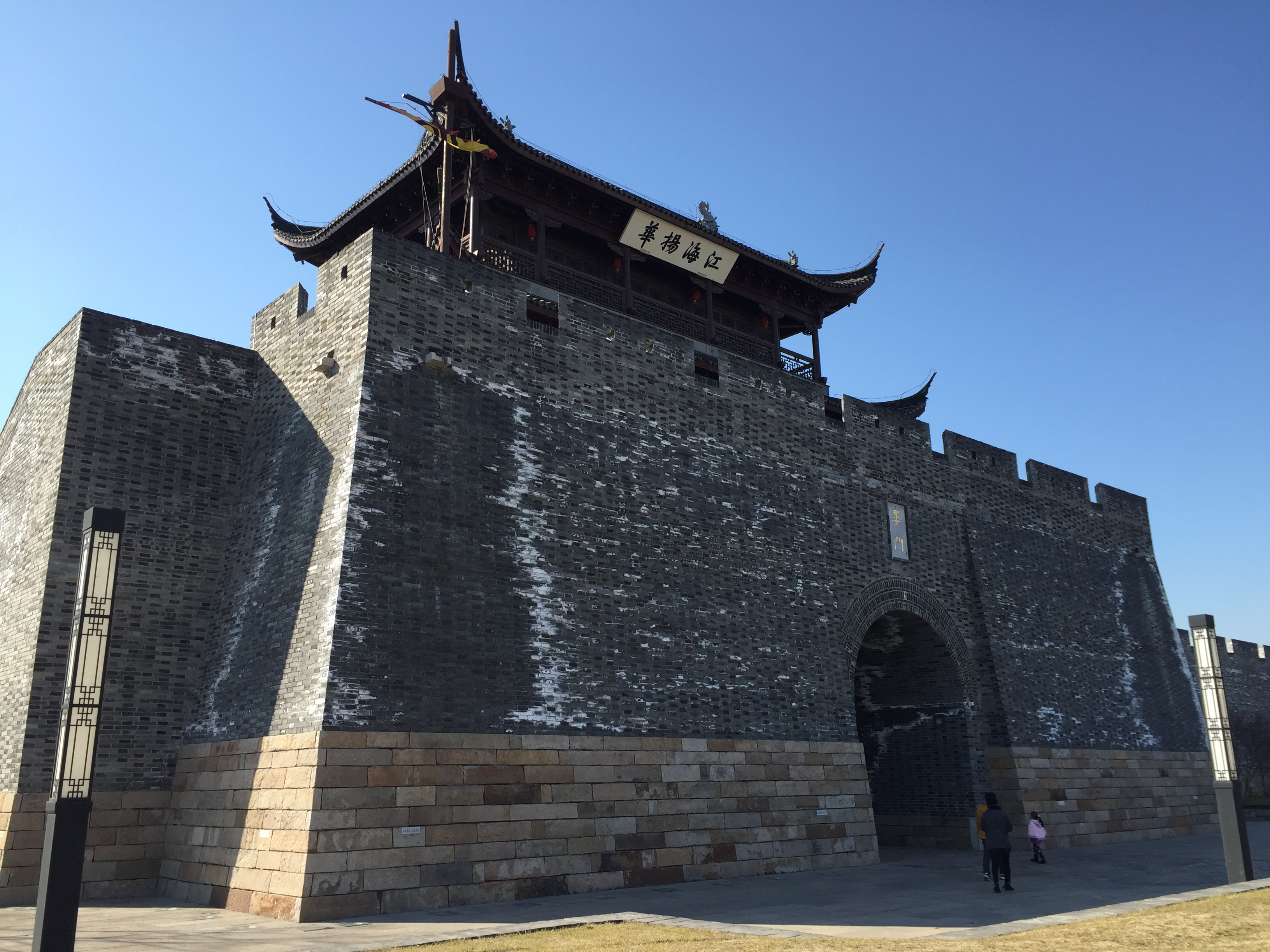 Xiangmen, Suzhou, China